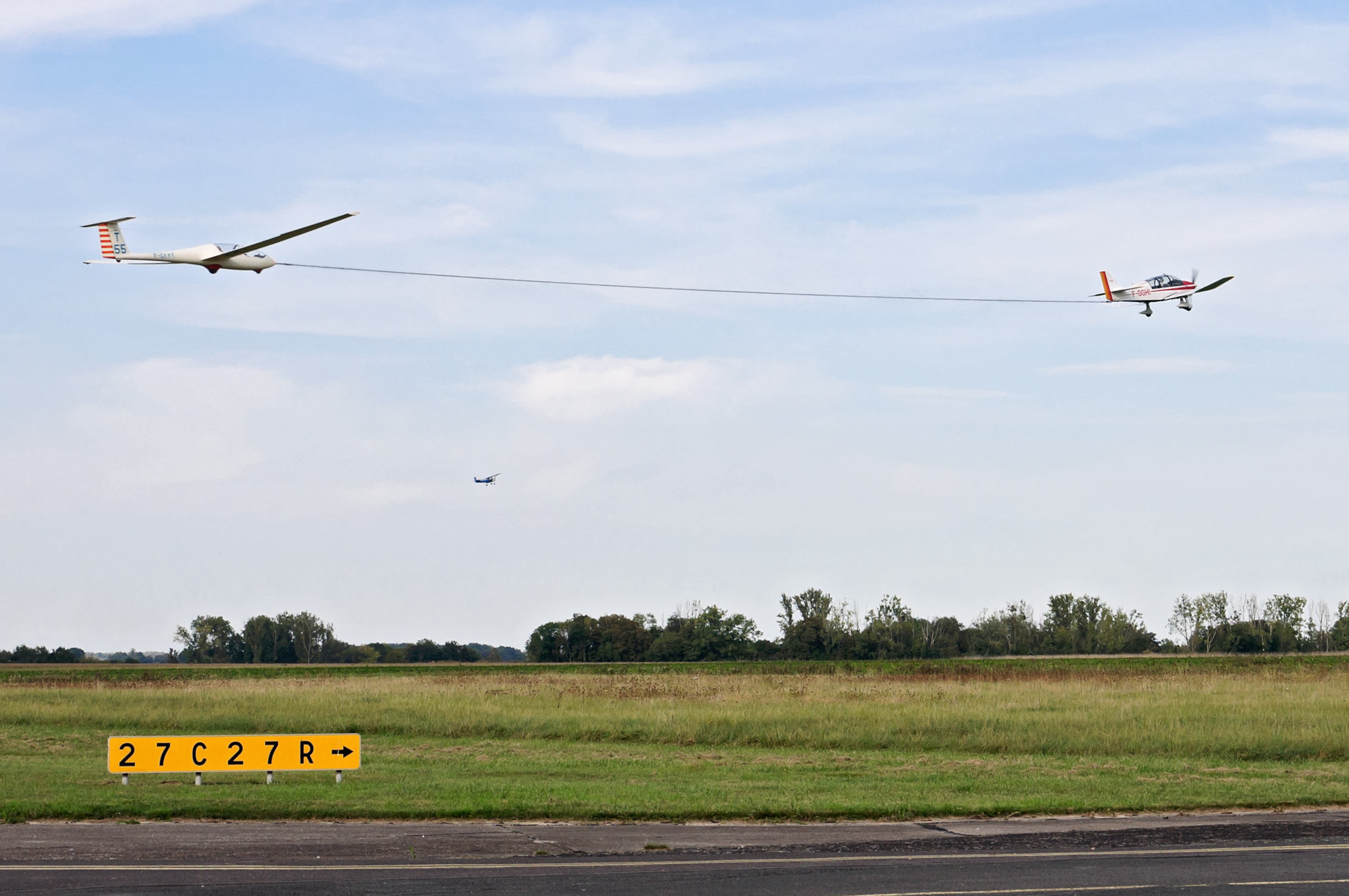 Aerotowing of a Grob G103 Twin Astir II glider by a Robin DR-400-180 R for a flight starting from Coulommiers – Voisins Aerodrome, Seine-et-Marne, France.